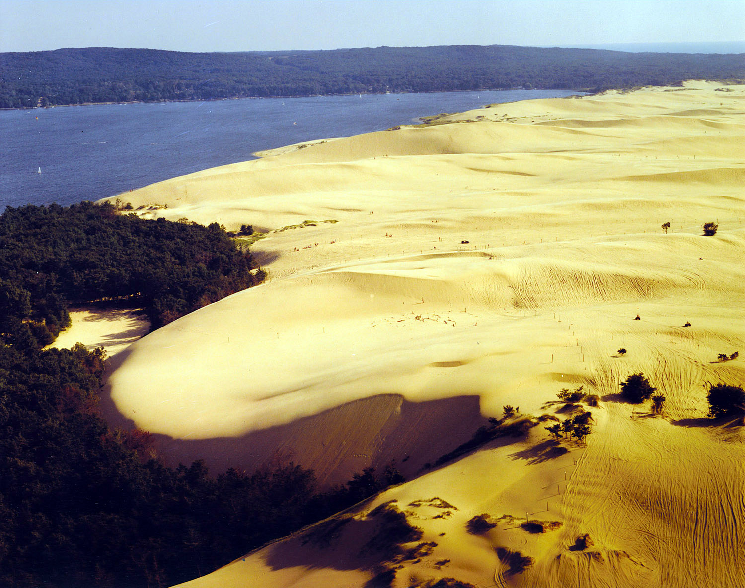 Silver Lake Dunes State Park on the Lake Michigan Shore in Oceana County, Michigan, USA. Color slightly enhanced by contributor.